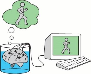 Brain in a vat. Famous thought experiment in analytic philosophy.